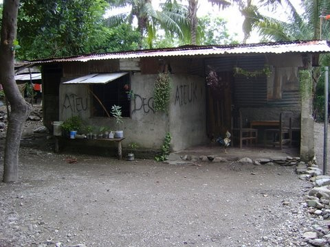 Family home in Becora